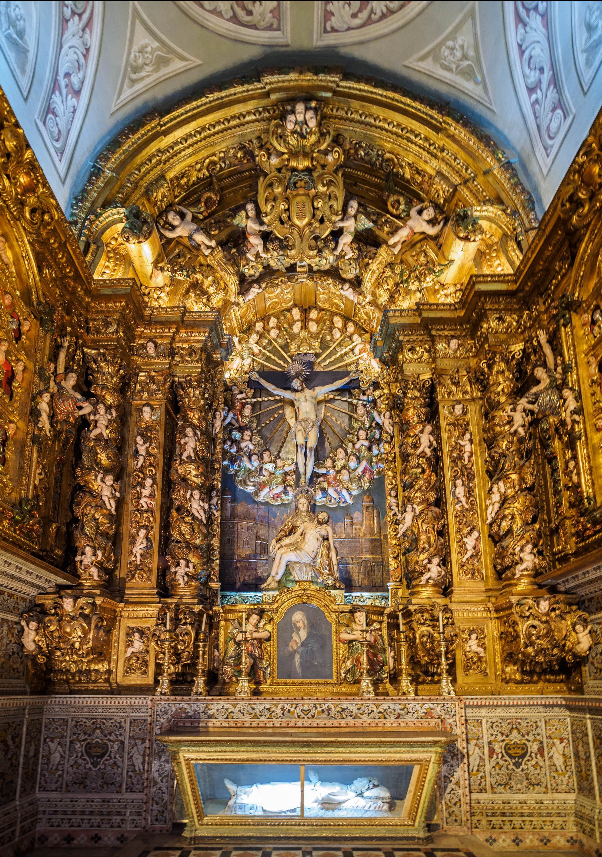 Andreas Manessinger, , Creative Commons BY-SA